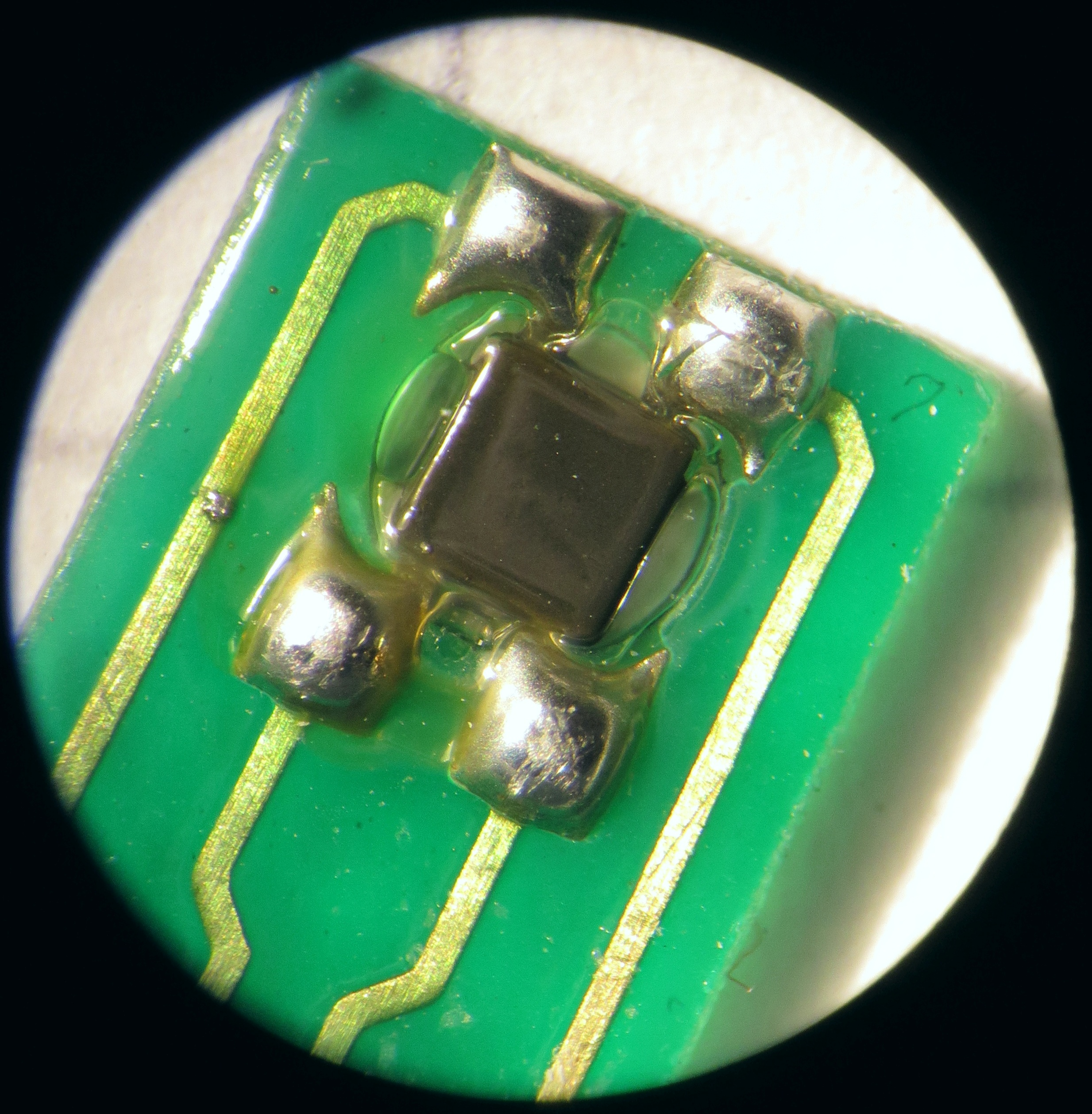 semi-conductor hall sensor ; contacts in van der Pauw geometry